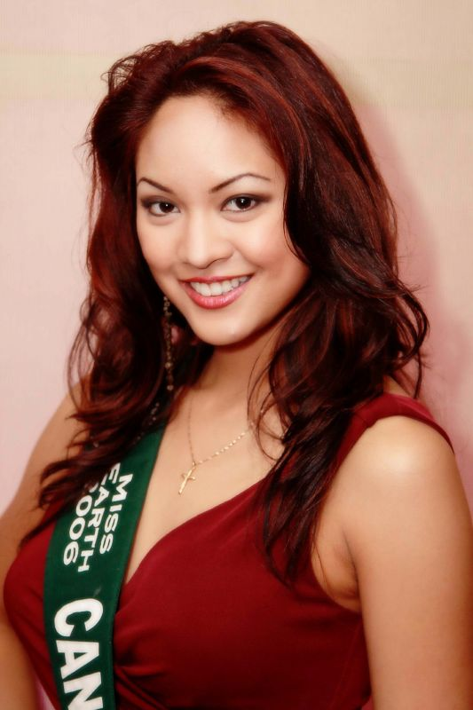 Miss Earth 2006 Riza Santos